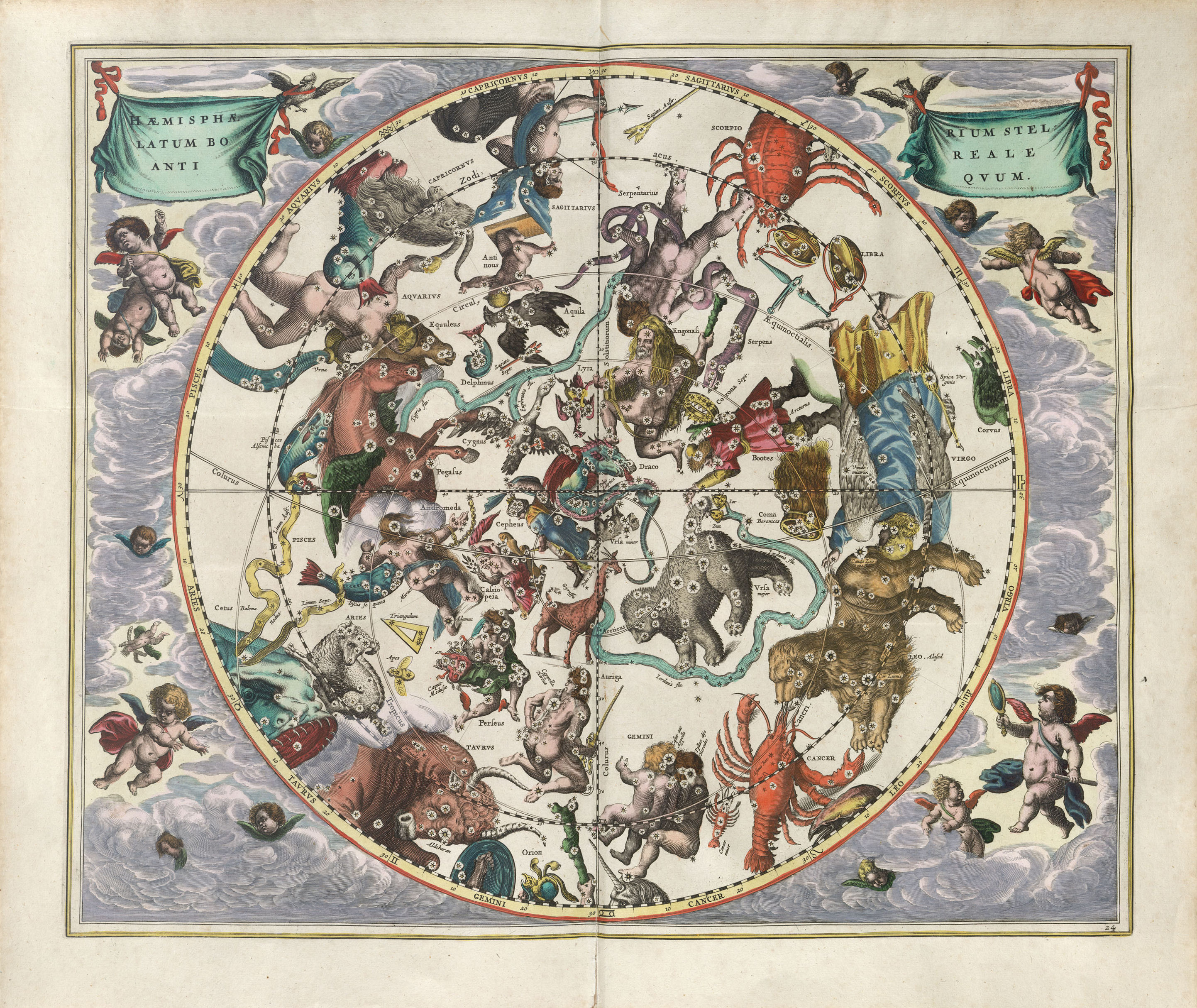 Andreas Cellarius: Harmonia macrocosmica seu atlas universalis et novus, totius universi creati cosmographiam generalem, et novam exhibens. Plate 24. HÆMISPHÆRIUM STELLATUM BOREALE ANTIQVUM - The northern stellar hemisphere of antiquity.